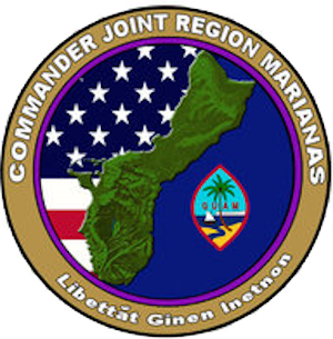 Joint Region Marianas - emblem